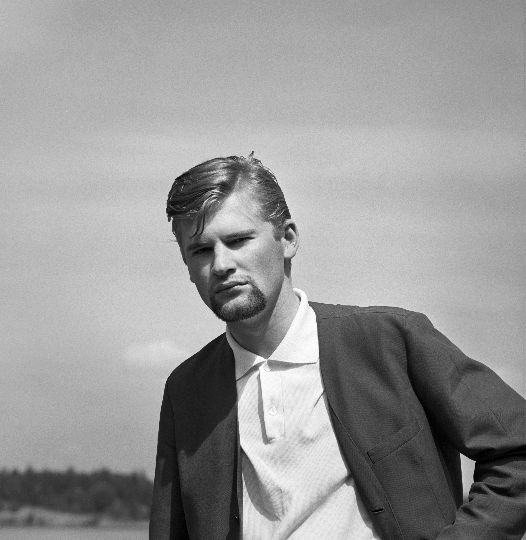 Photographic self-portrait of the Finnish photographer Olavi Kaskisuo (1942–).